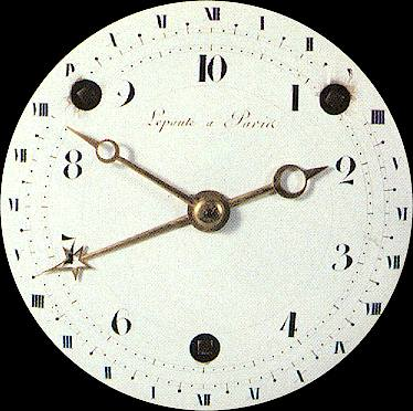 Clock dial of the French Revolution, Photographic reproduction of a two-dimensional work of art of the late 18th/early 19th century